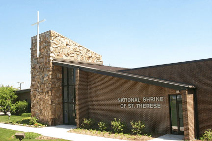 The National Shrine of St. Therese in Darien, Illinois, USA